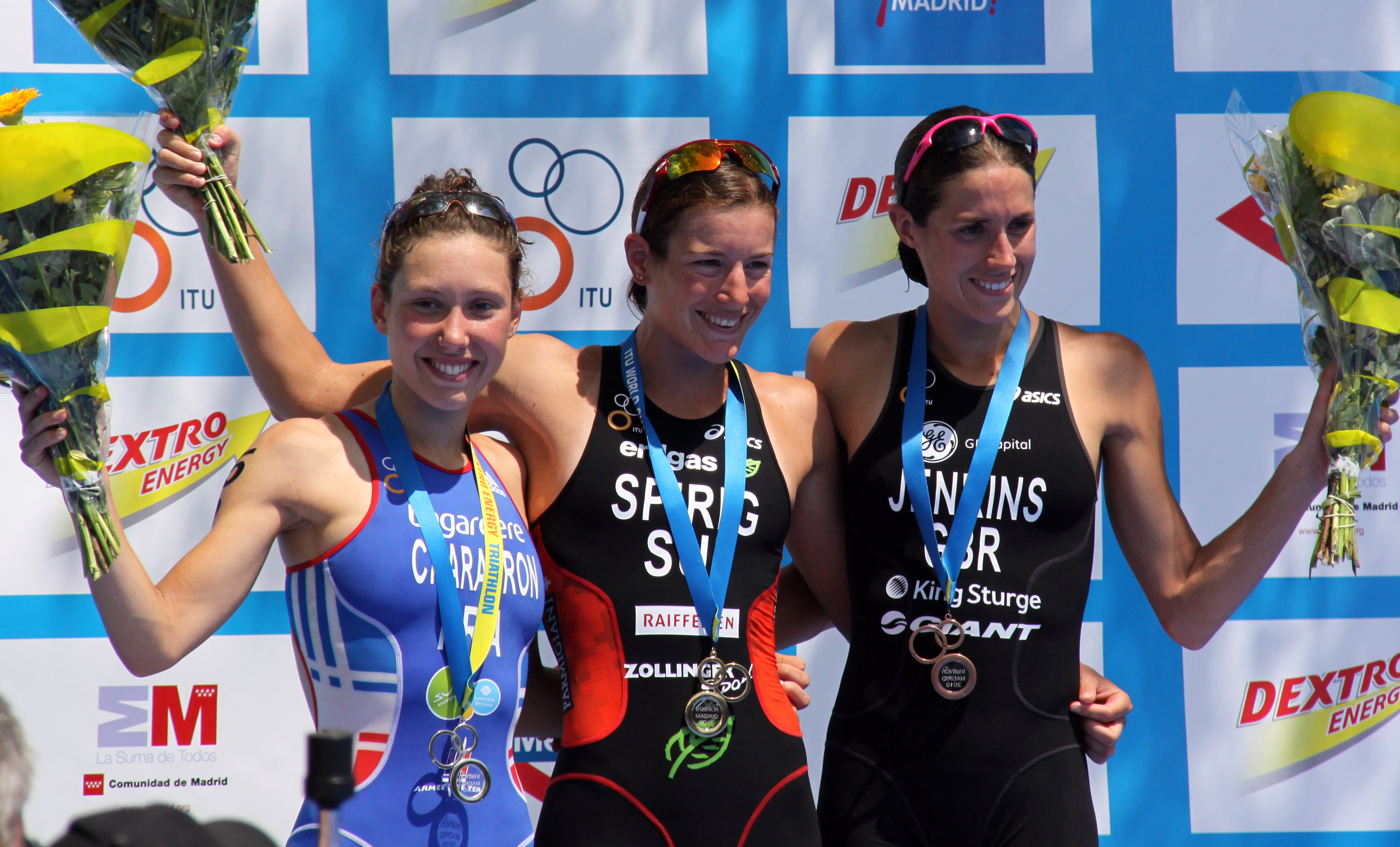 Emmie Charayron, Nicola Spirig, and Helen Jenkins Tucker at the World Championship Series triathlon in Madrid, 2010.